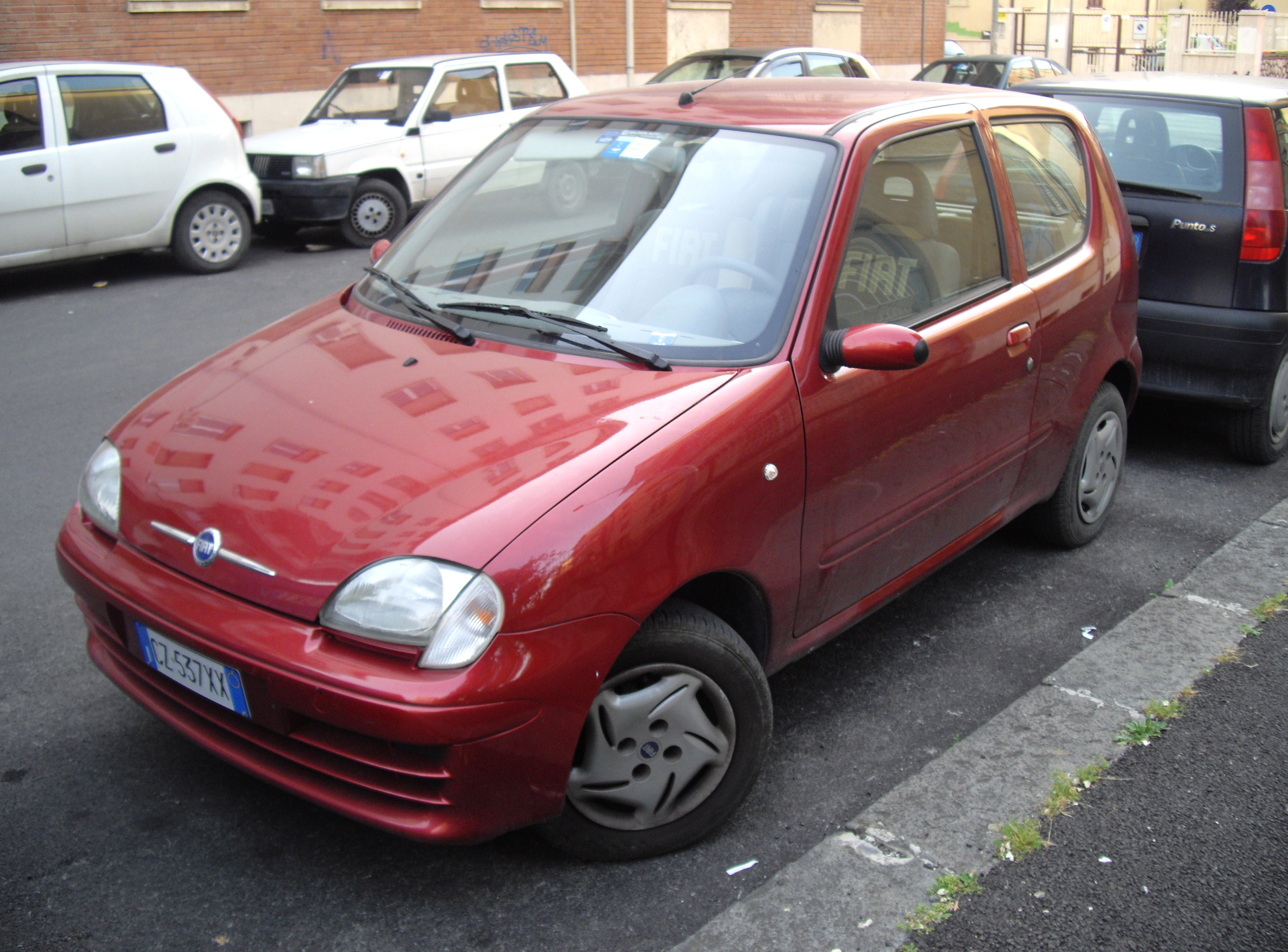 Fiat 600 red